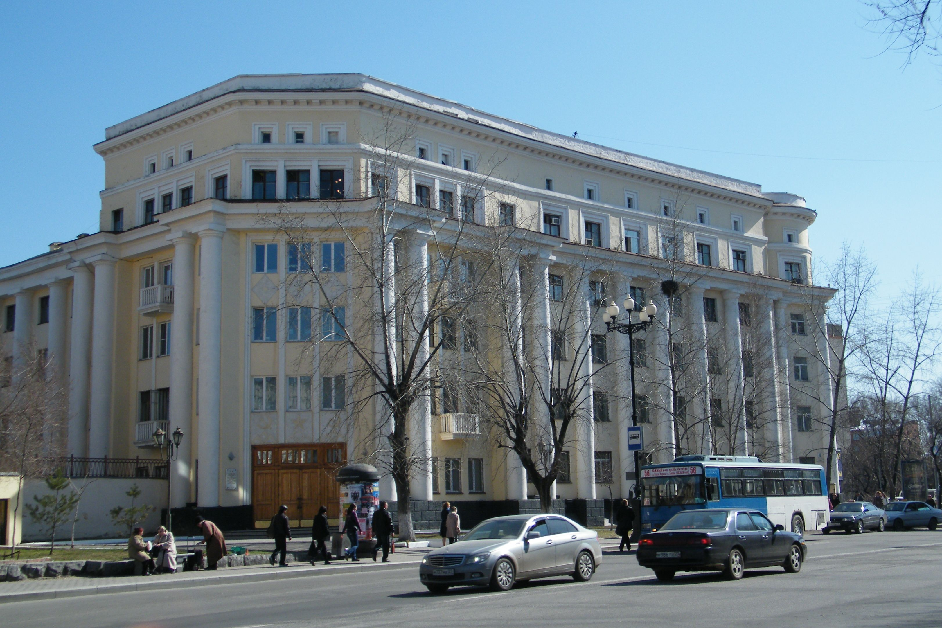 Дальневосточный военный округ